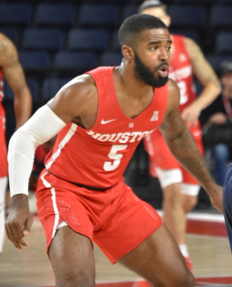 Corey Davis Jr. in November 2017